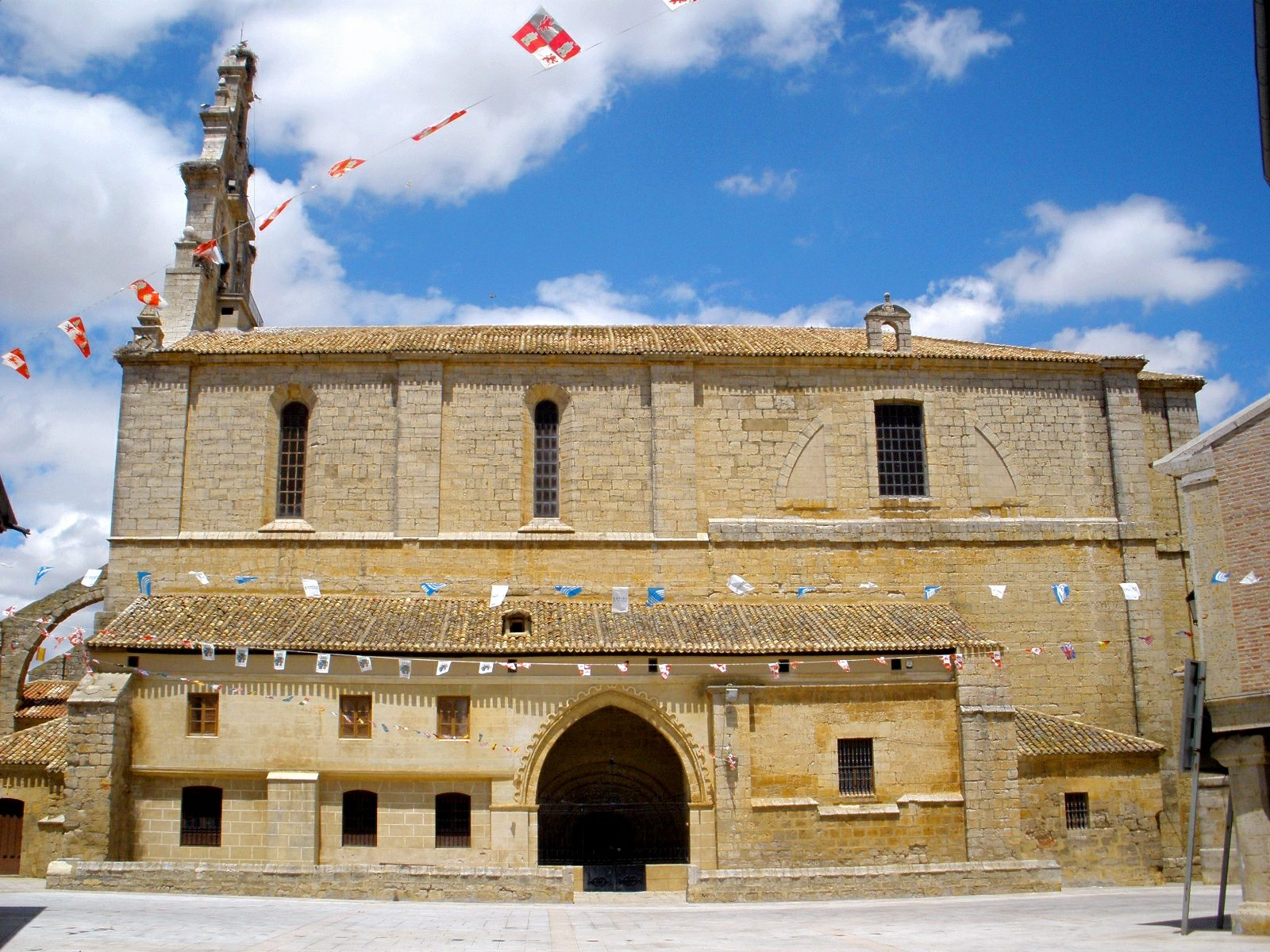 Iglesia de San Pedro (Amusco)